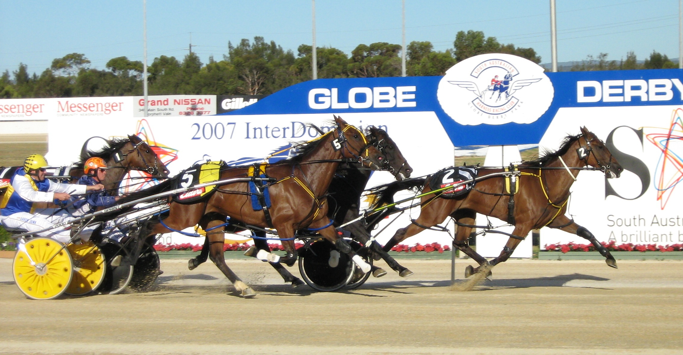 Harness Racing (Pacers) at the 2007 Interdominion Championships held at Globe Derby Park in South Australia (#2 Make Me Smile, #5 Dee Dees Dream, #4 Braeside Seel Star (number not visible), #1 Tactical Dreamer). #5 wears a yellow bit lifter.